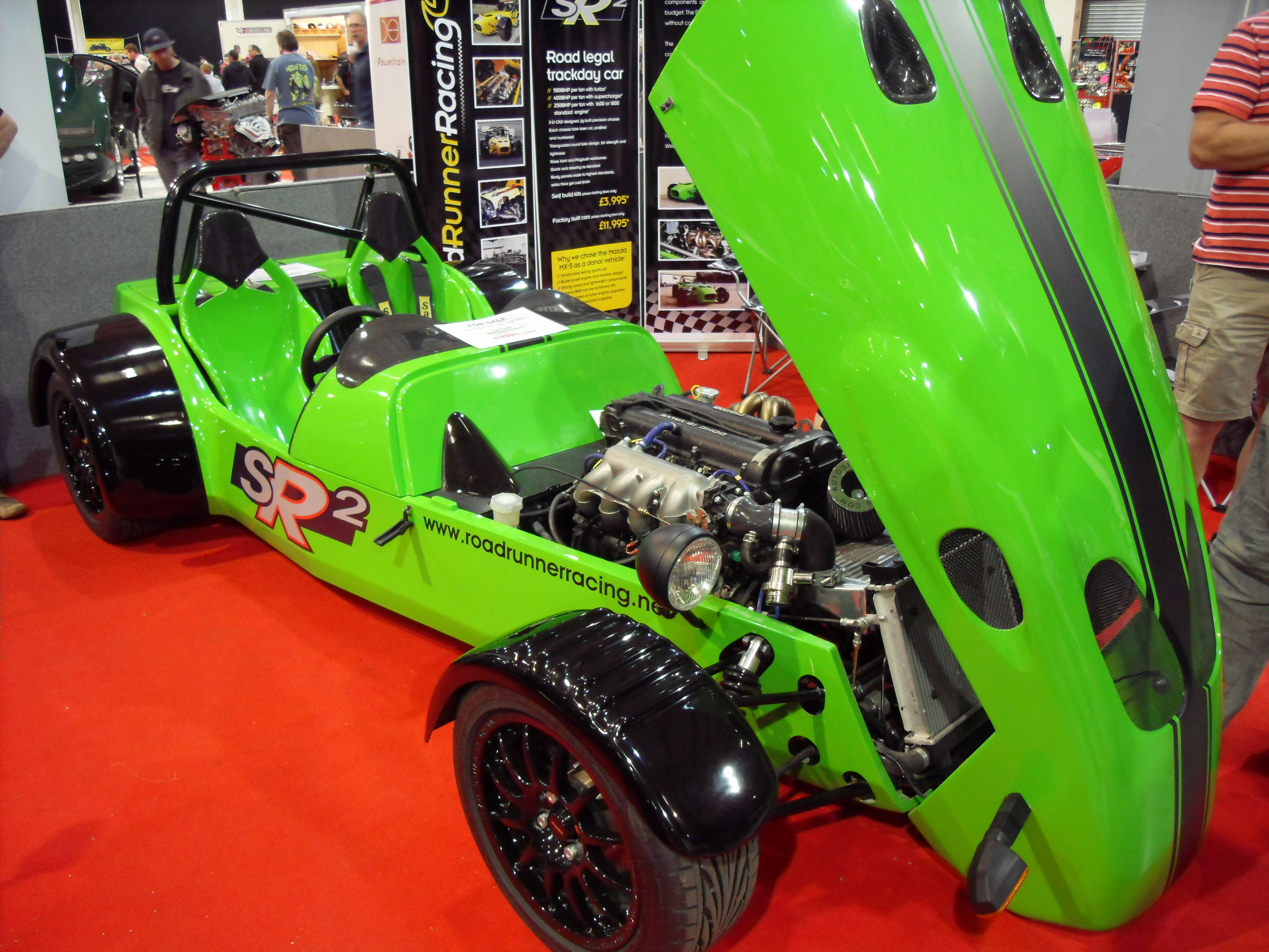 National Kit Car Show Stoneleigh 2011